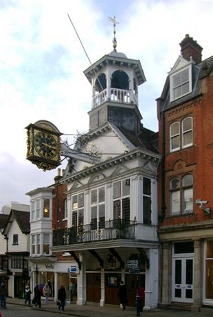 Guildford Clock, Surrey, United Kingdom